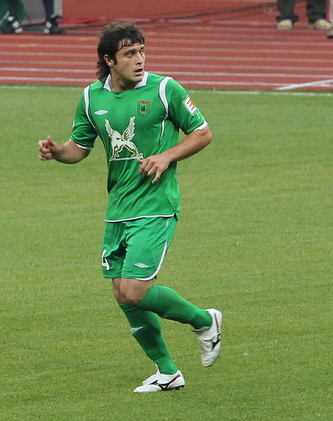 Alan Kasaev